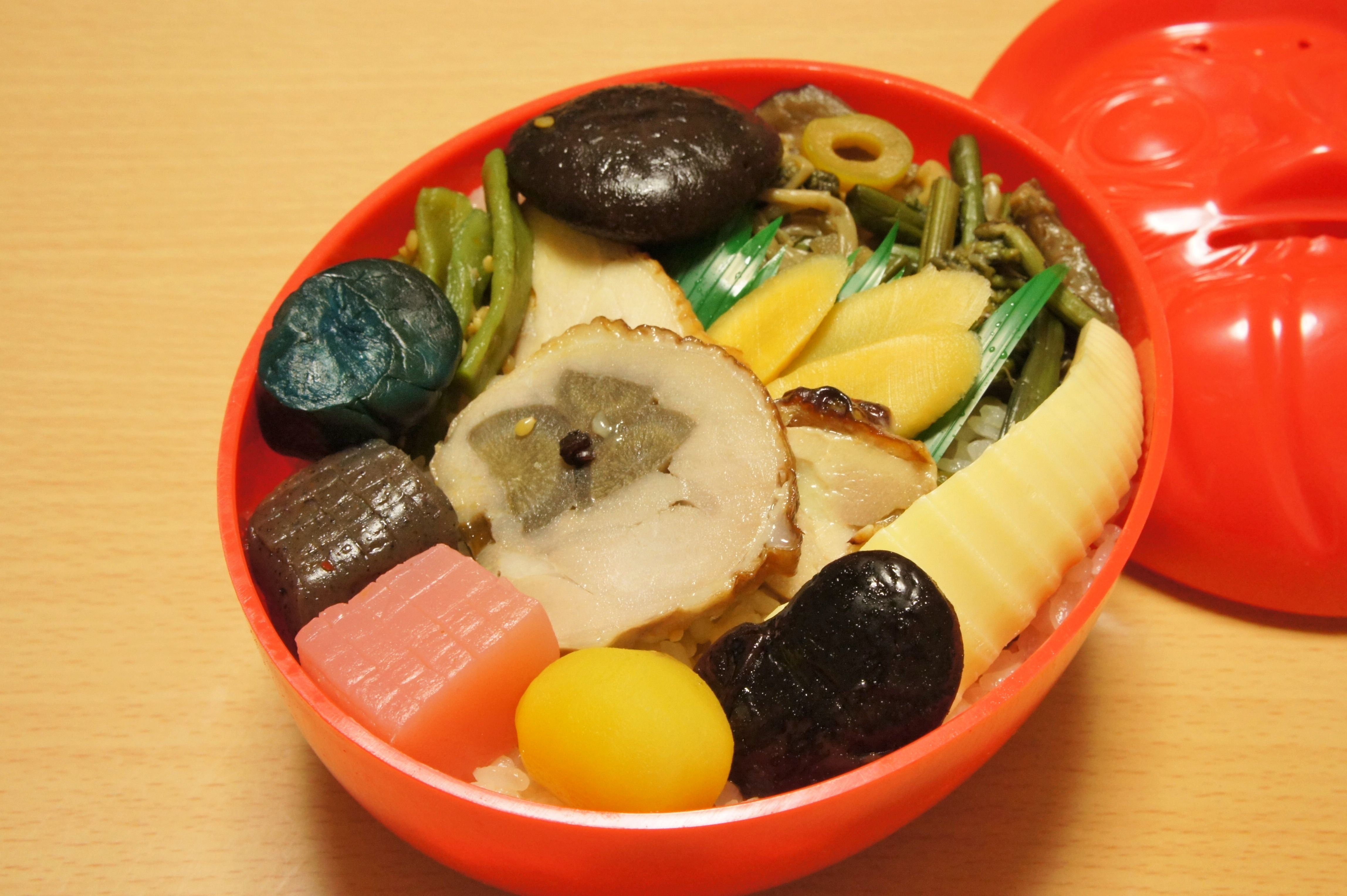 Takaben Daruma Bento.